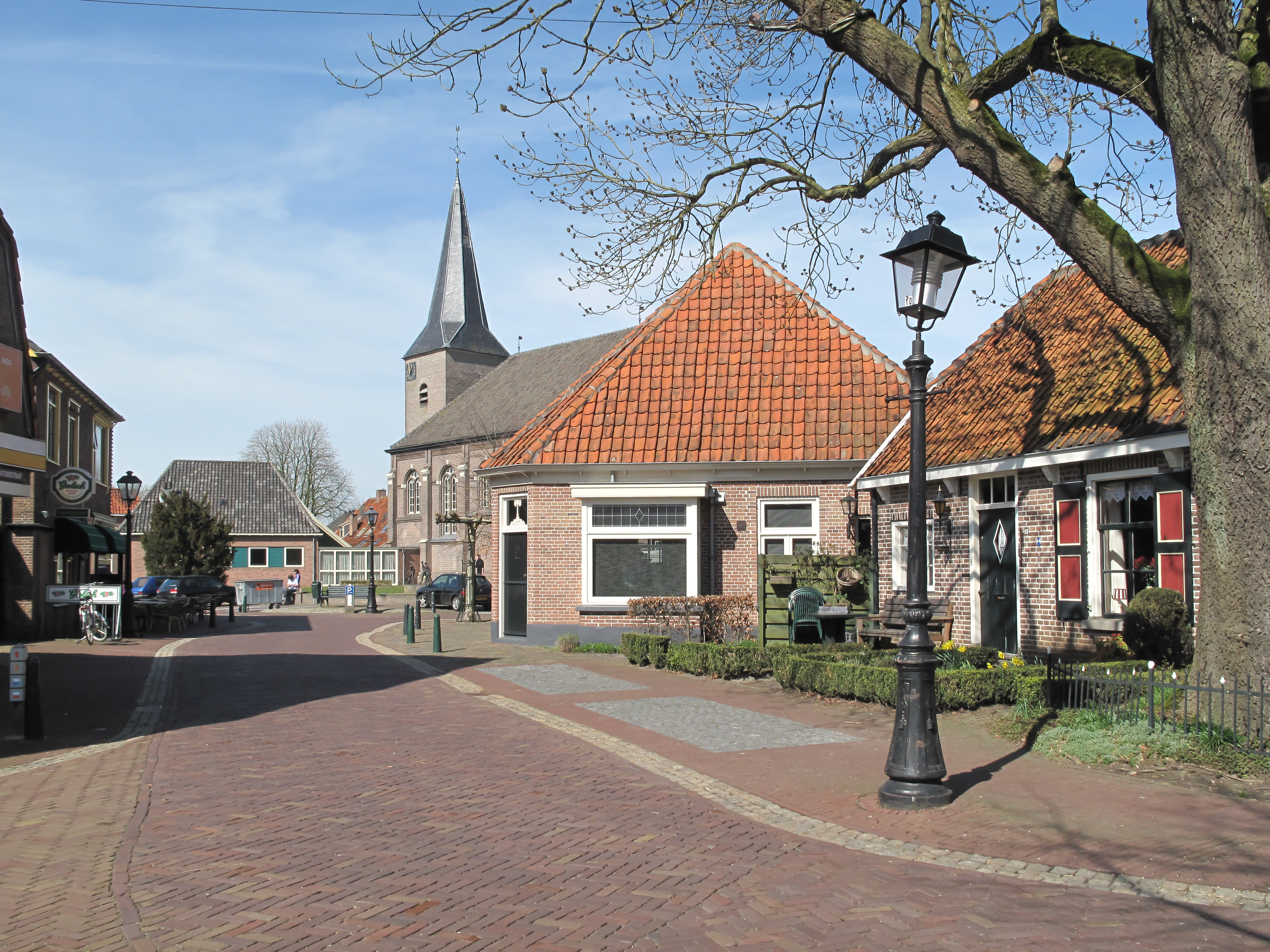 Gramsbergen, church in the street